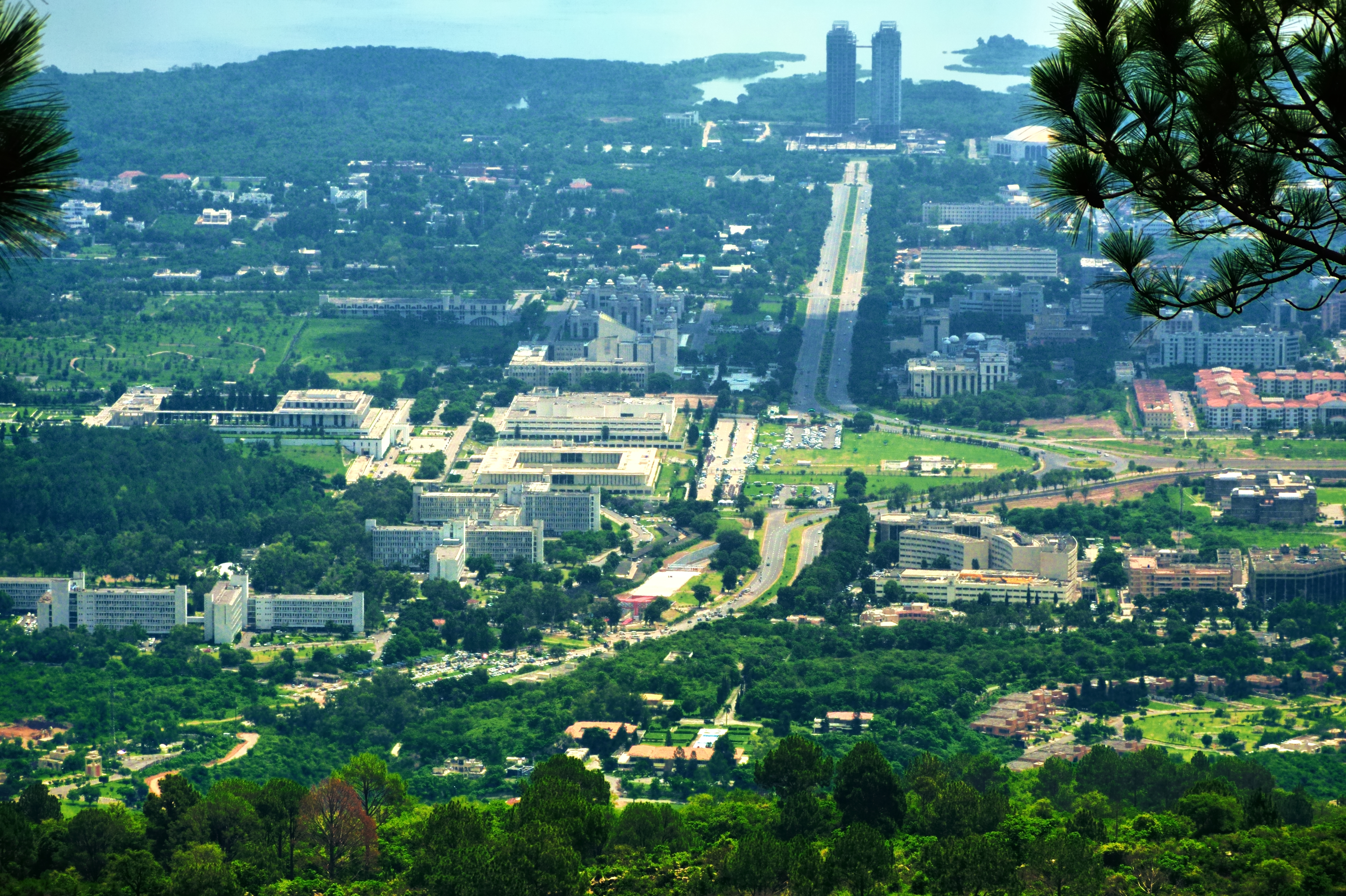 Constitution Avenue in Islamabad from near Pir Sohawa